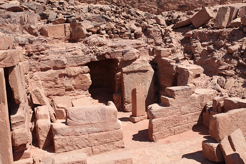 Right Sopdu chapel, Temple of Hathor, Serabit el-Khadim, South Sinai, Egypt